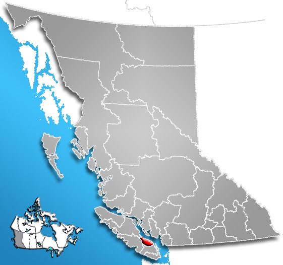 Location of Regional District of Nanaimo, British Columbia